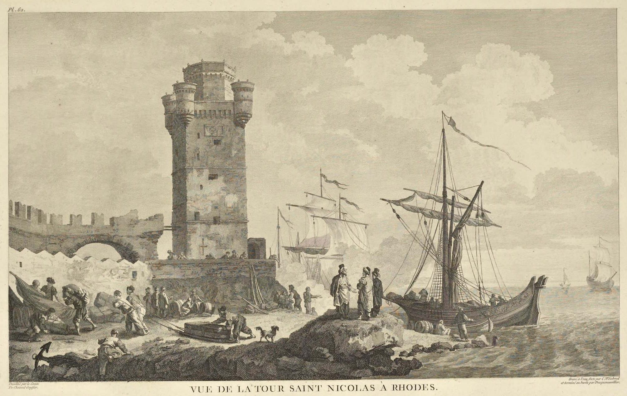 The tower of Saint Nicolo.